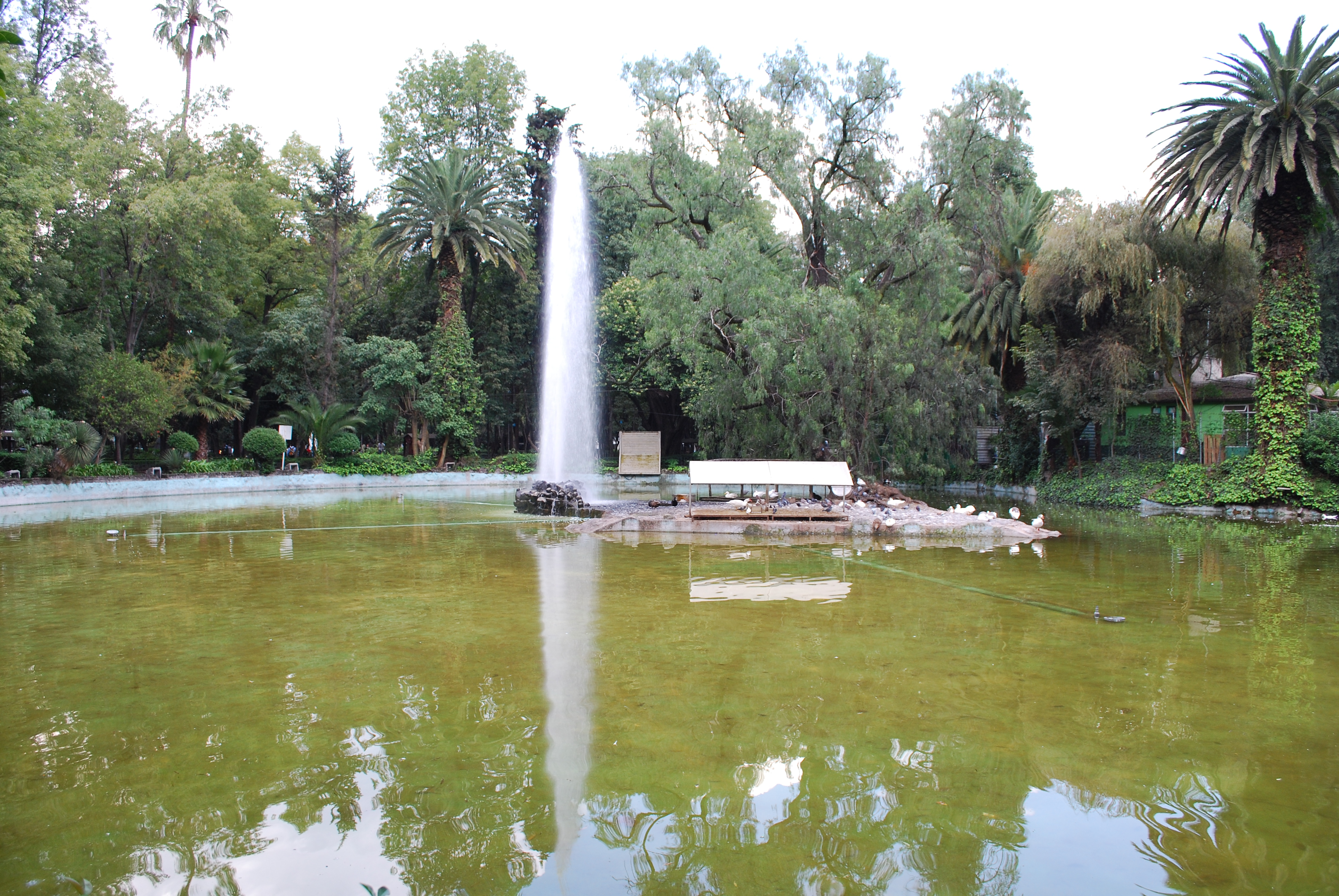 Pond with fountain in Parque Mexico in Colonia Hipodromo in Mexico City